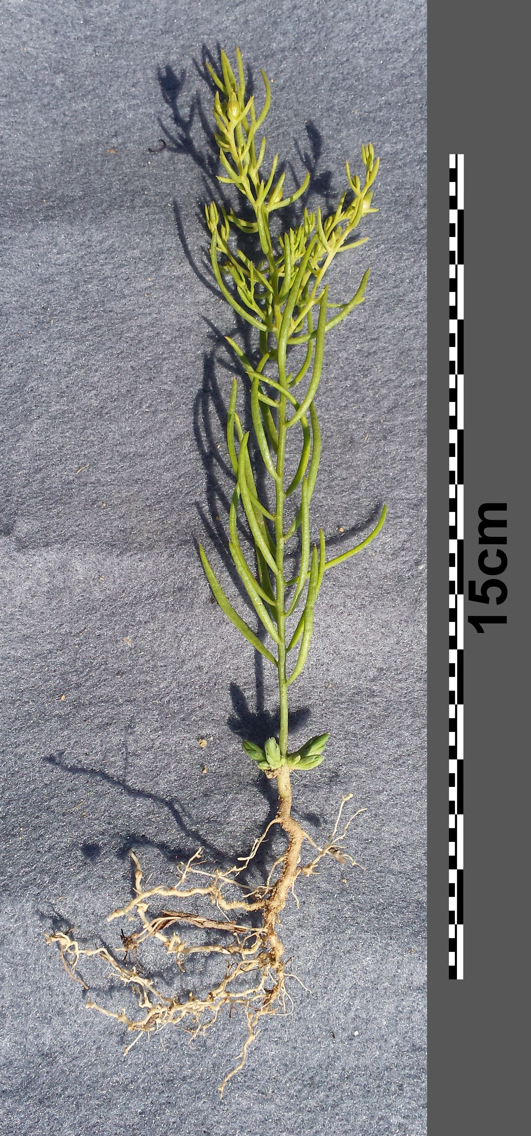 Habitus Taxonym: Thesium dollineri ss Fischer et al. EfÖLS 2008 ISBN 978-3-85474-187-9 Location: Latschenberg near Altenmarkt im Thale, district Hollabrunn, Lower Austria - ca. 350 m a.s.l. Habitat: semi-dry grassland/border of a field